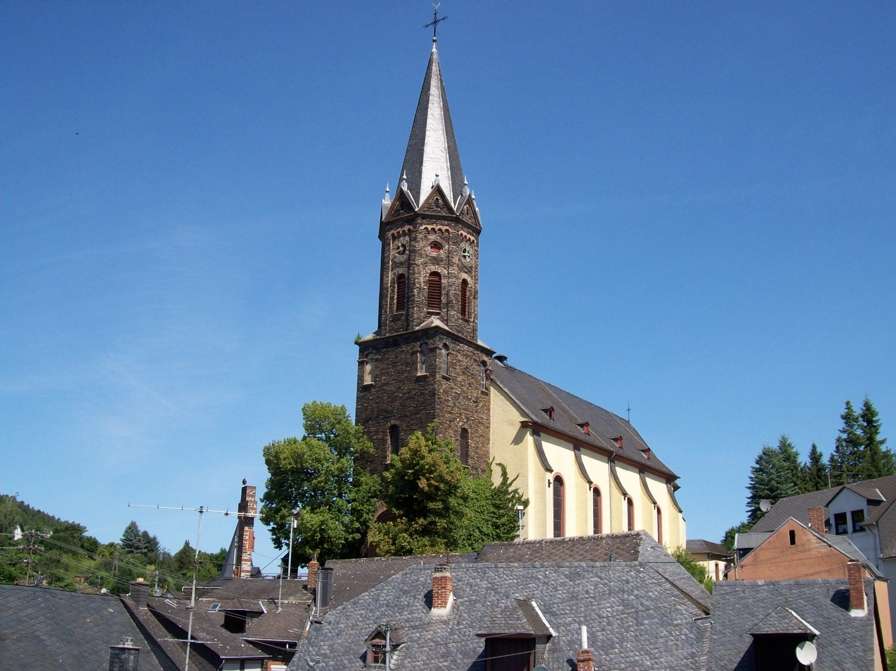 Lieser, Church St. Peter. Built 1782, tower 1860